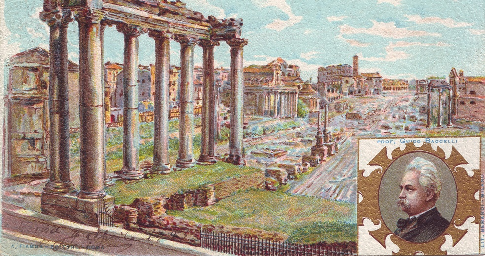 early 20th Century Italian postcard representing Guido Baccelli as the promoter of the Roman Forum excavation and tourist layout